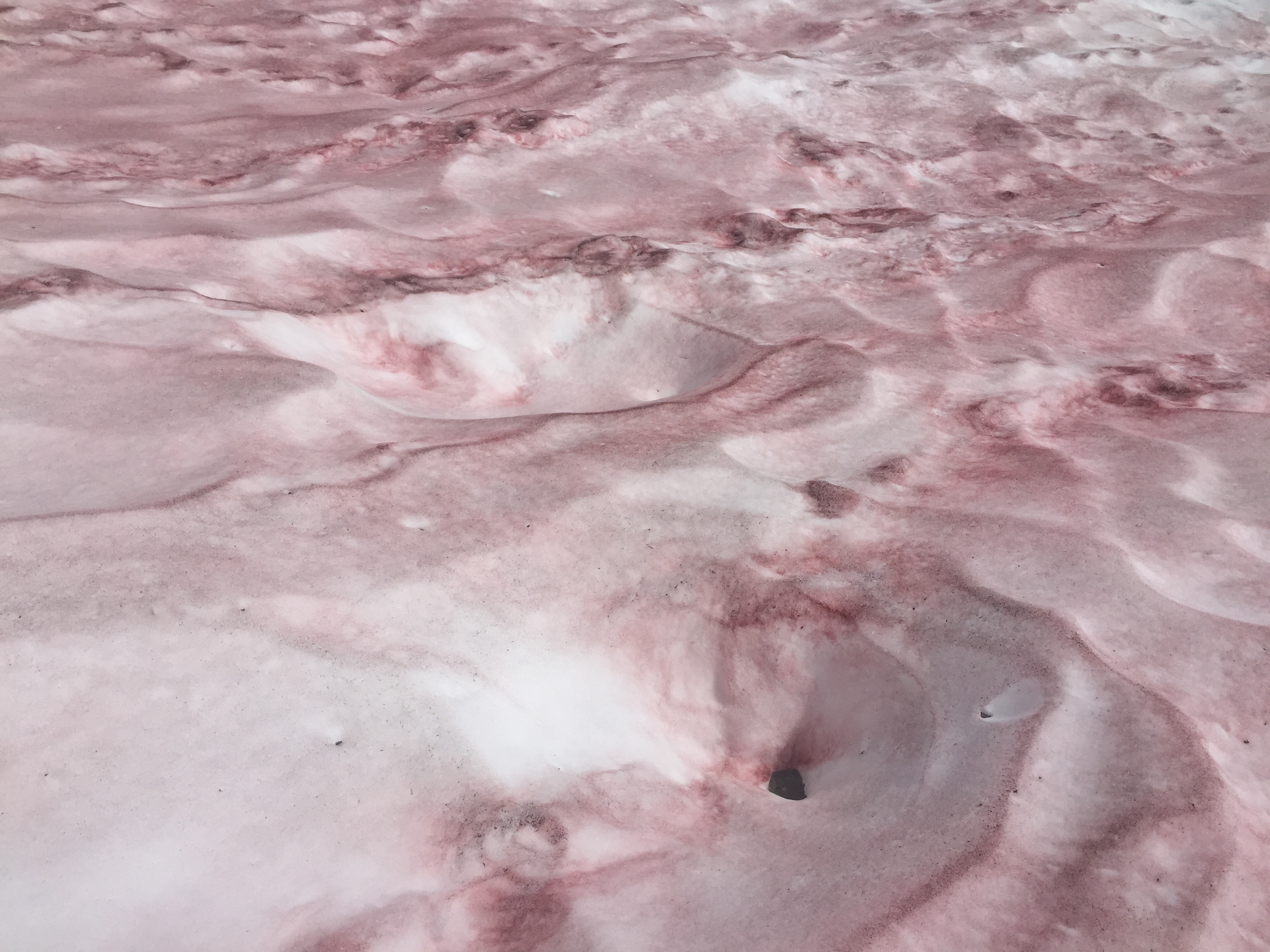 Hiking/Climbing Mount Ritter on the Inyo National Forest, Ansel Adams Wilderness, Aug. 28, 2017. Reached below pinnacle to the left of the Southeast Glacier and put on micro-spikes 0700. Entered the SE Glacier. Snow was soft enough to kick steps in but just slushy enough to not be able to bite into with the spikes. Ice axe was needed. Kicked stepped up Glacier to rock fields. At 12,000 one party member stopped. Two continued up to Owen's Chute, which was last right turning chute on right side of canyon. Chute had no snow in it. 0930. Small storm came in with darken skies and small amount of hail. Decided to turn around and link up with other teammates. Should have gone for the summit, which looked like a large snow field surrounded it and more kick stepping required. Tons of daylight. Bad choice to turn back. Temps in 50s. No wind. (USDA photo by Paul Wade)